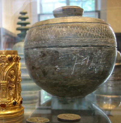 Steatite container of the Bimaran casket. British Museum. Personal photograph 2005.